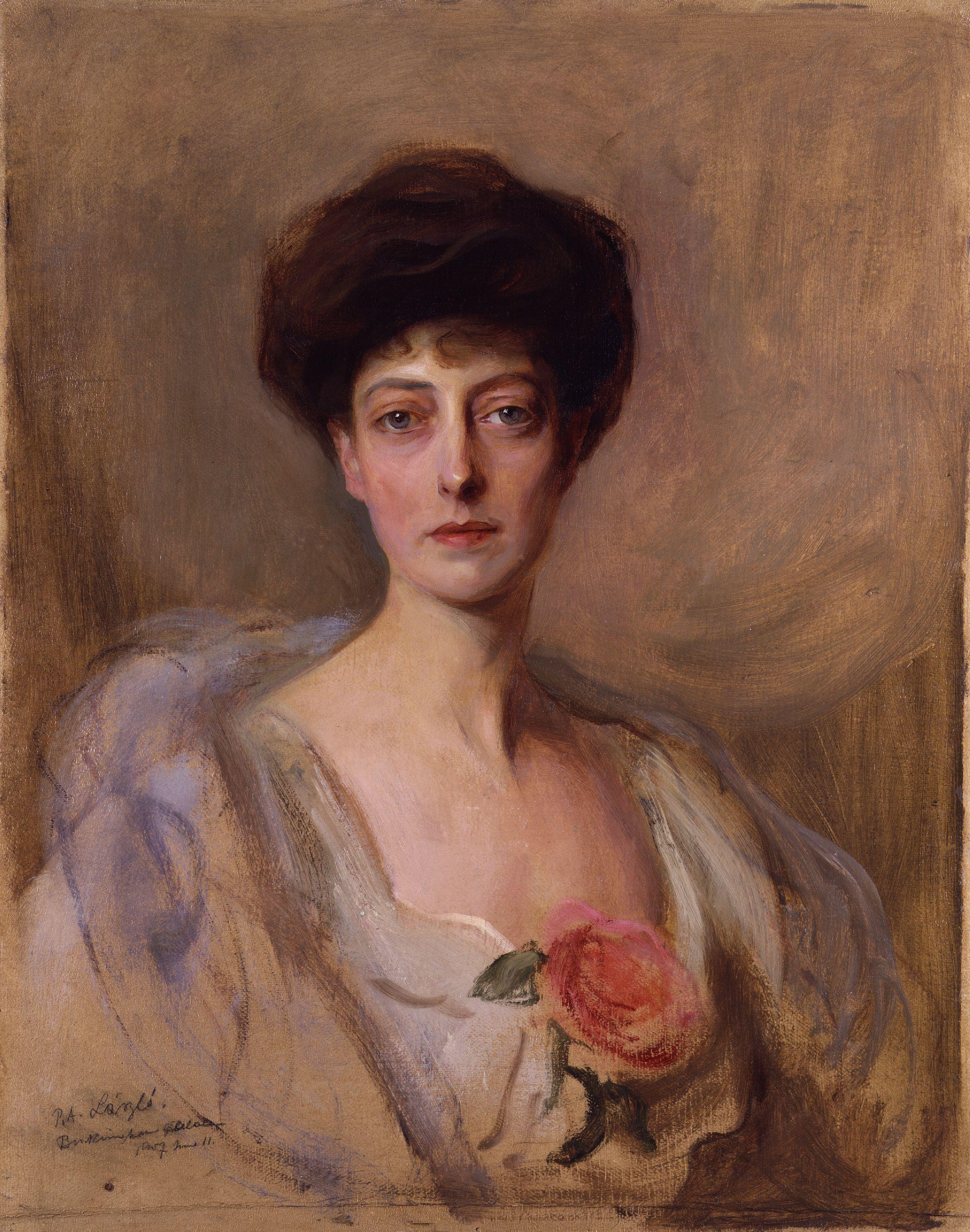 Princess Victoria Alexandra Olga Mary of Wales, by Philip Alexius de László (died 1937). All images in this batch have been confirmed as author died before 1939 according to the official death date listed by the NPG.